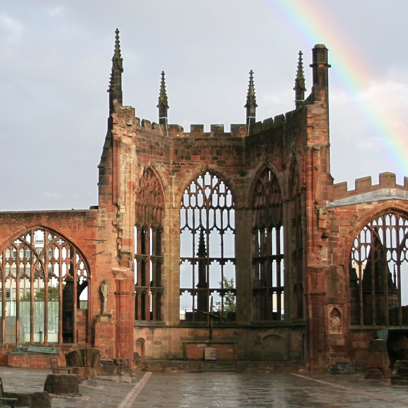 Inside the nave of the ruined Coventry Cathedral, looking east to the apsidal chancel, with a rainbow beyond